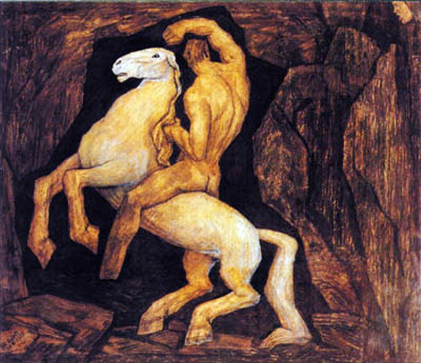 The Gates of Hell